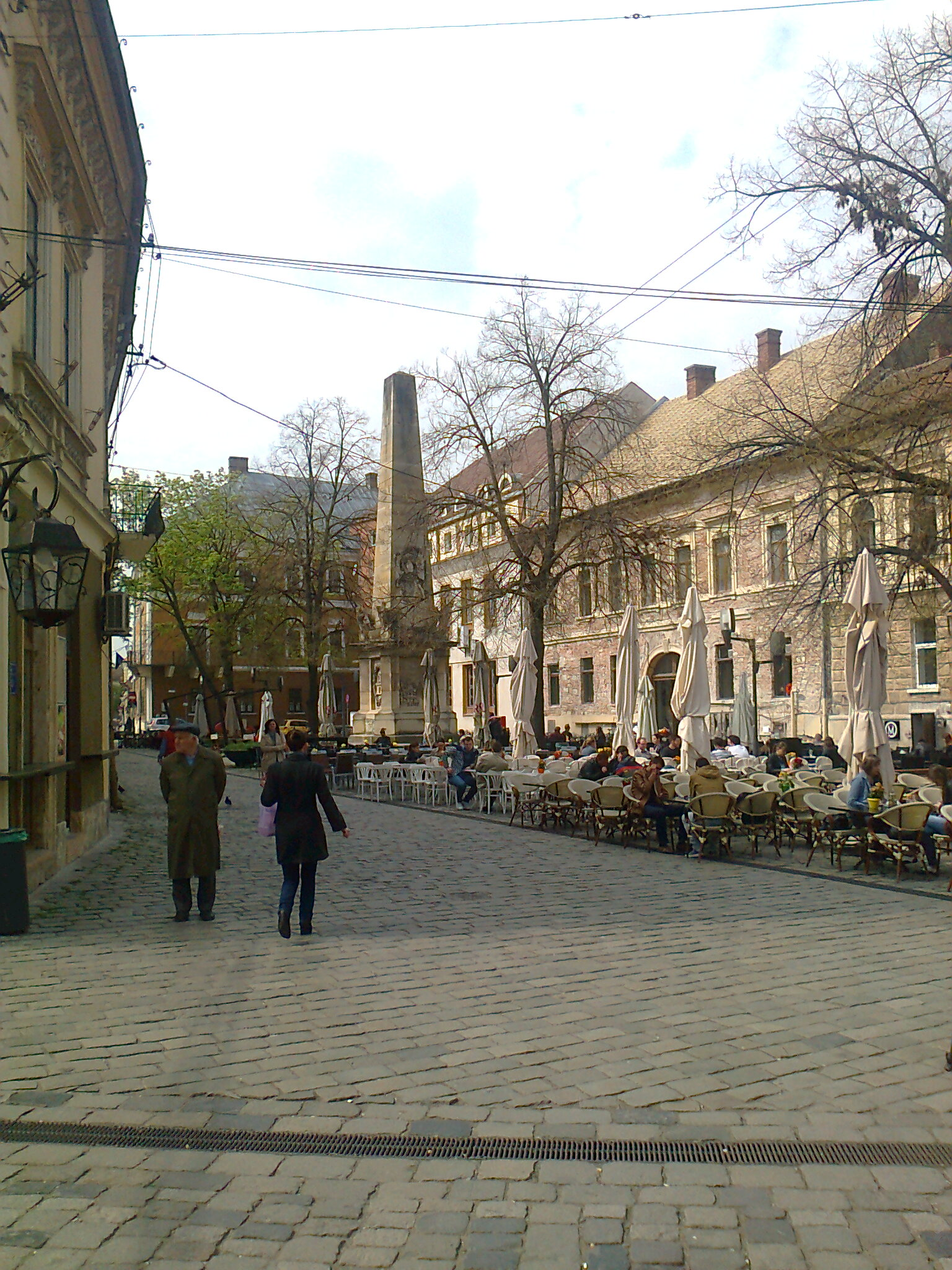 Karolina Square Cluj